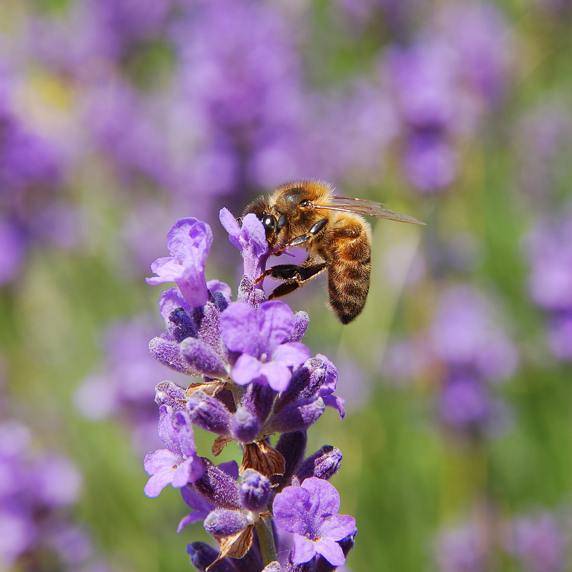 Apis mellifera & Lavandula angustifolia in Belgium (Hamois).